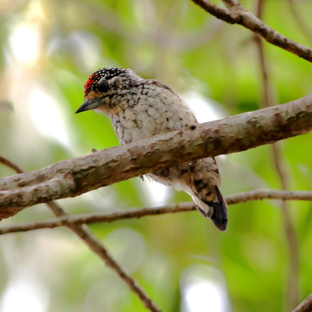 White-wedged Piculet (male) at Bonito - MS - Brazil